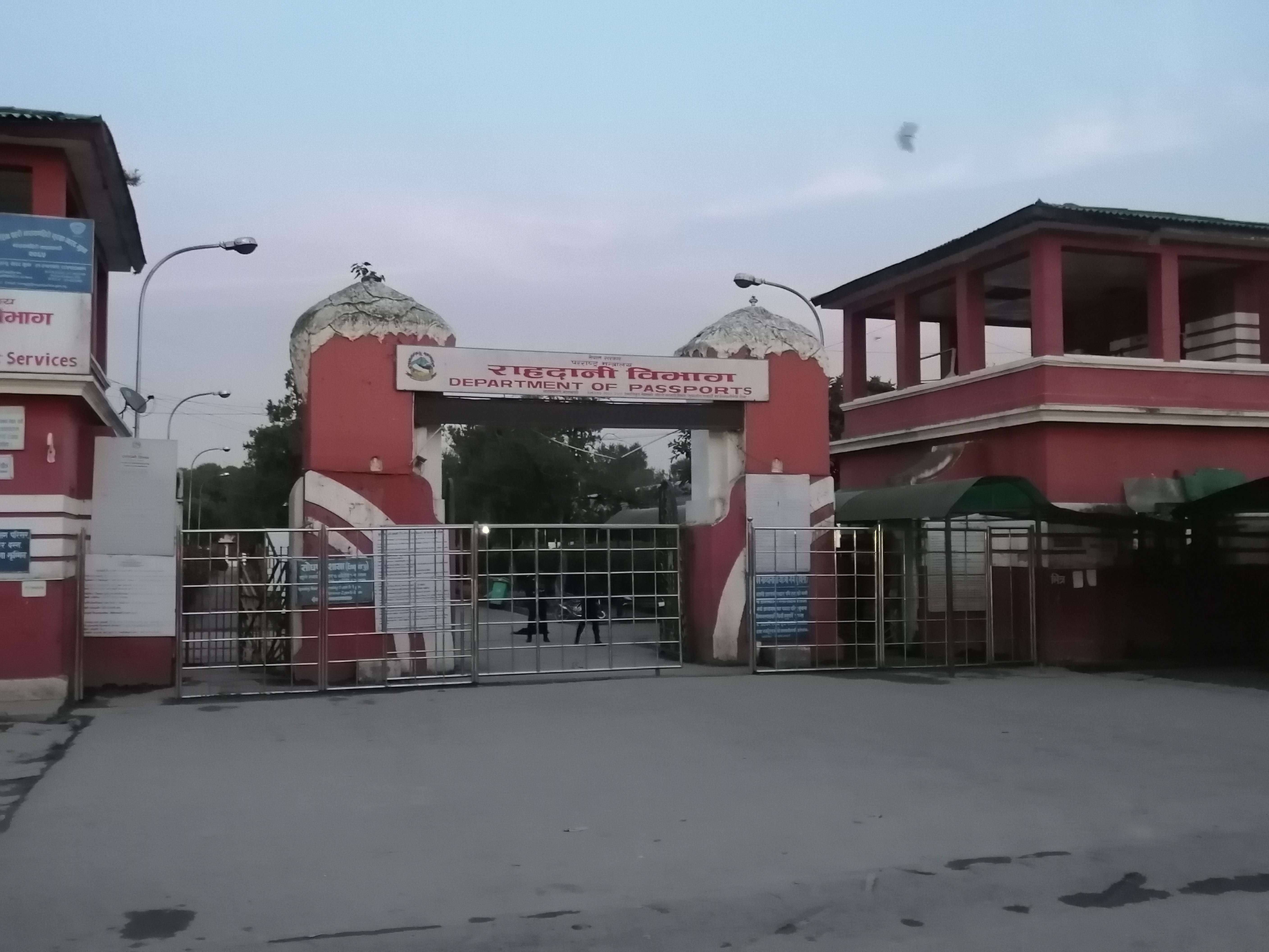 Nepal Passport Office, Kathmandu